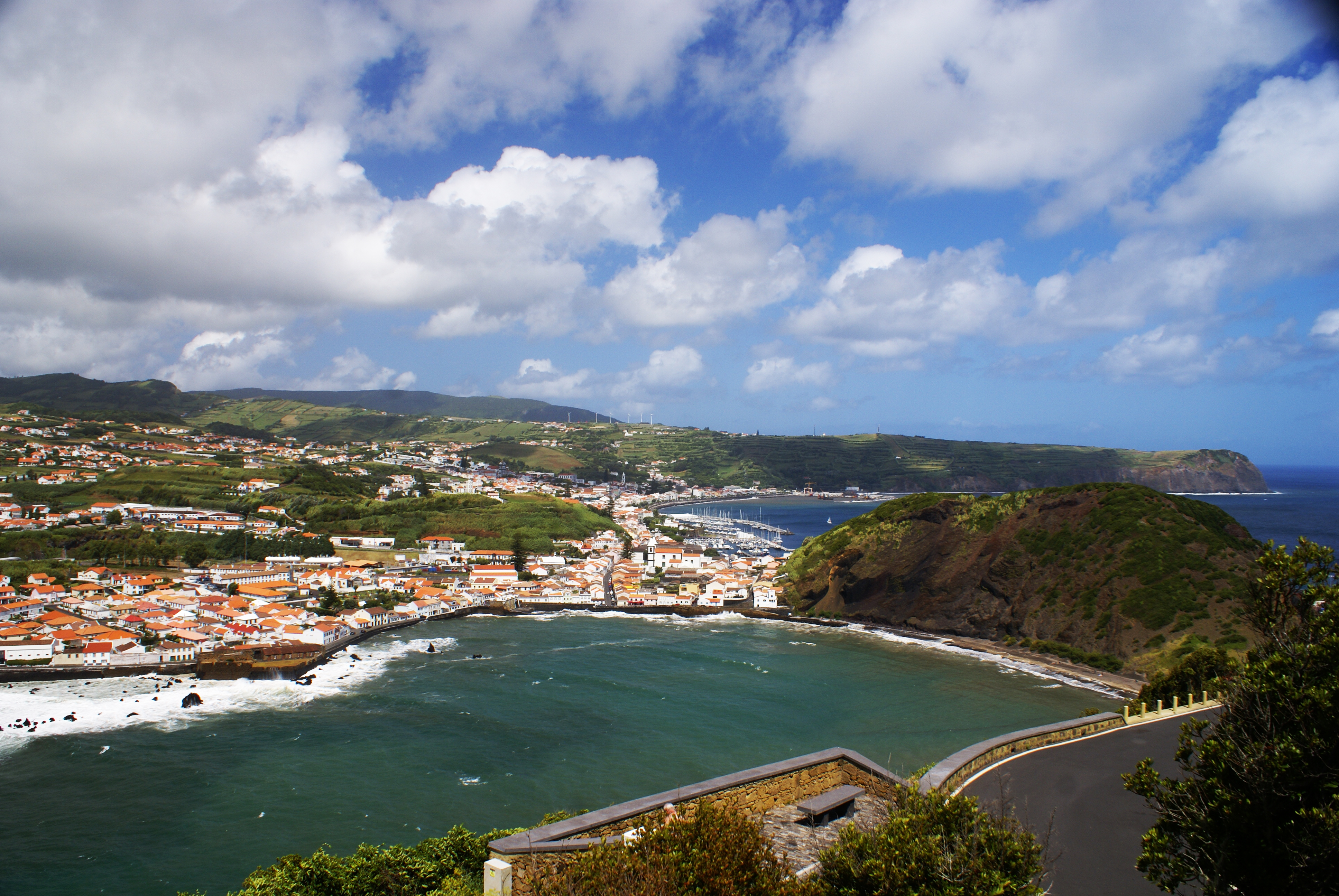 Vista parcia da cidade da Horta 2 apartir do Monte da Guia, Concelho da Horta, ilha do Faial, Açores, Portugal